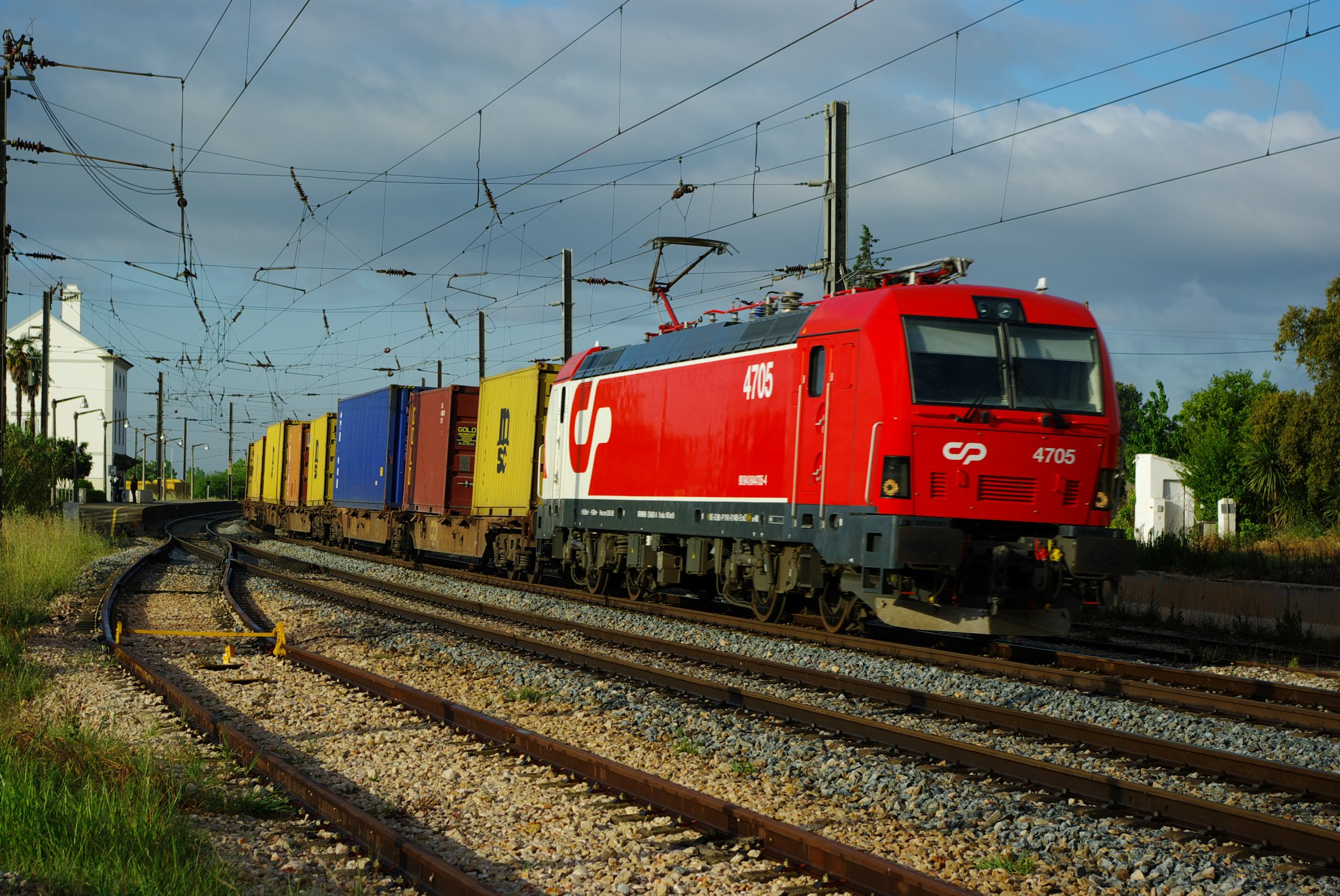 Locomotive 4705 with railway wagons on a service from Lisbon to Entroncamento